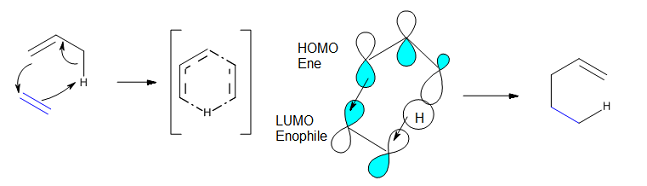 new fig 2